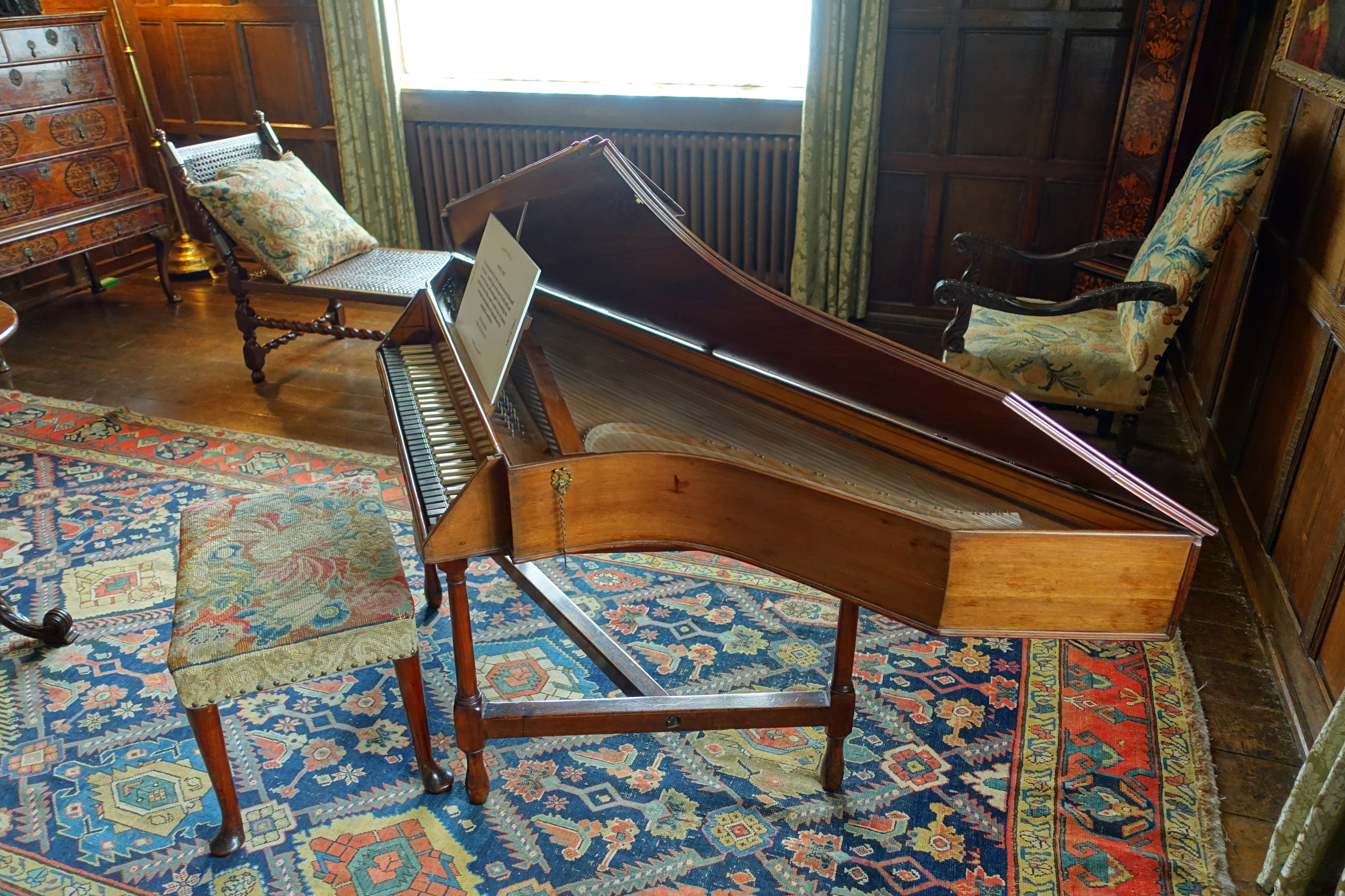 Exhibit in Packwood House - Warwickshire, England.